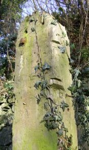 TheBourtreehillian My own collection